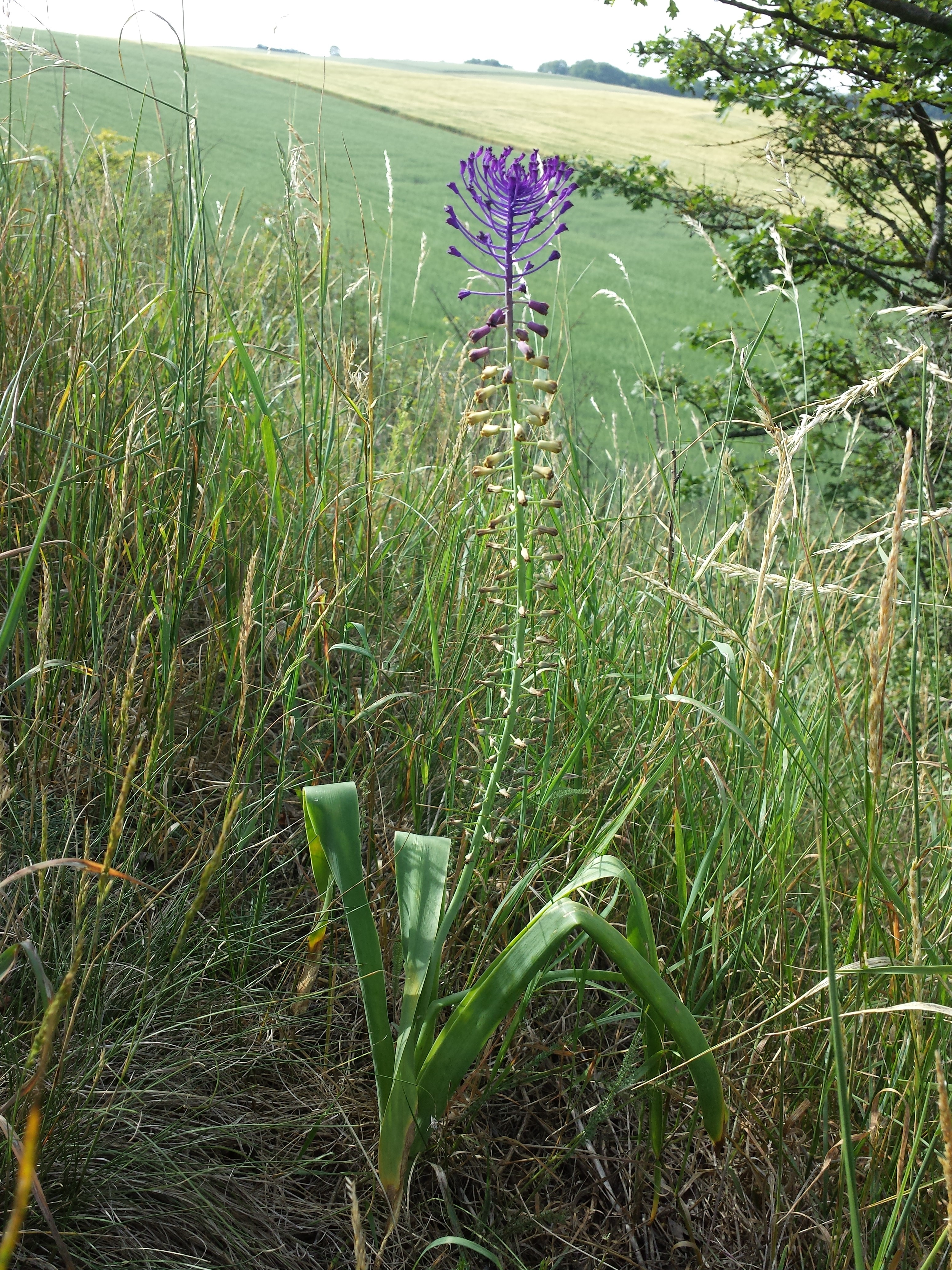 Habitus Taxonym: Muscari comosum ss Fischer et al. EfÖLS 2008 ISBN 978-3-85474-187-9 Location: north of Grafensulz, district Mistelbach, Lower Austria - ca. 240 m a.s.l. Habitat: slope